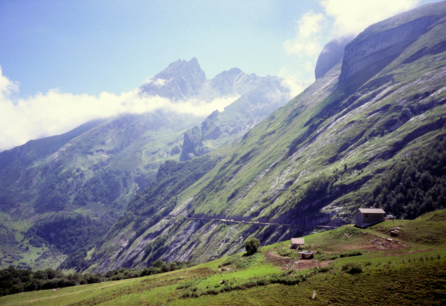 Road from Col d'Aubisque to Soulor, Atlantic Pyrenees, France